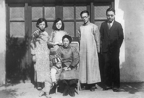 周有光（1906年1月13日－），原名周耀平，生于中國江苏常州，中国语言学家、文字学家，通晓汉、英、法、日四种语言。中国语言学家。此图是青年时代的周有光一家的照片。